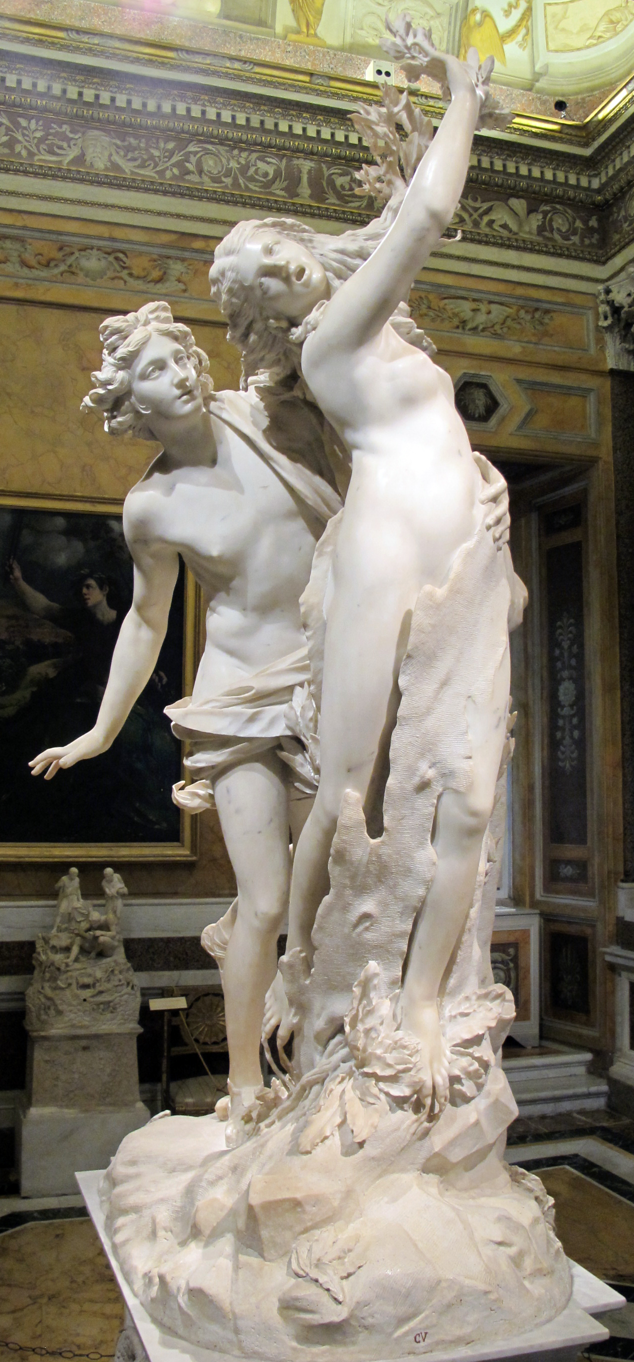 Sculptures in the Galleria Borghese (Rome)